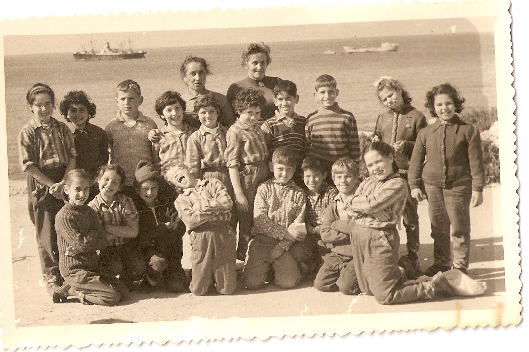 Education in Israel